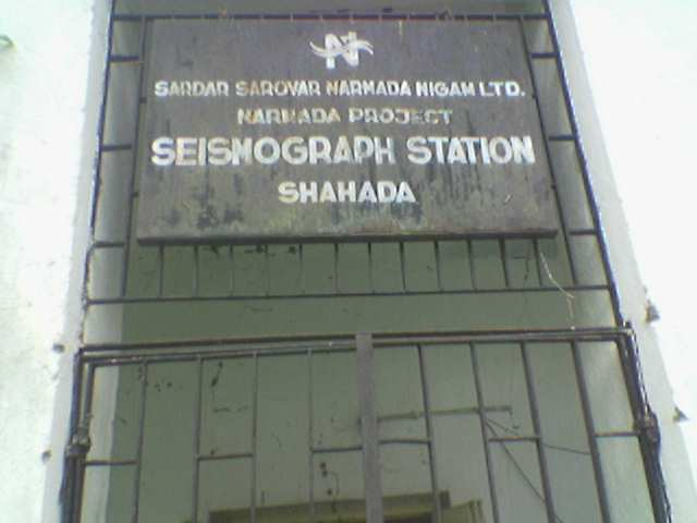 Picture of Seismograph Station situated at Savalde village near Shahada, Maharashtra.